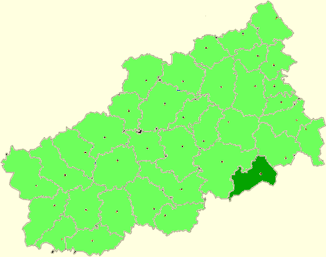 Tver Oblast map by Al Silonov